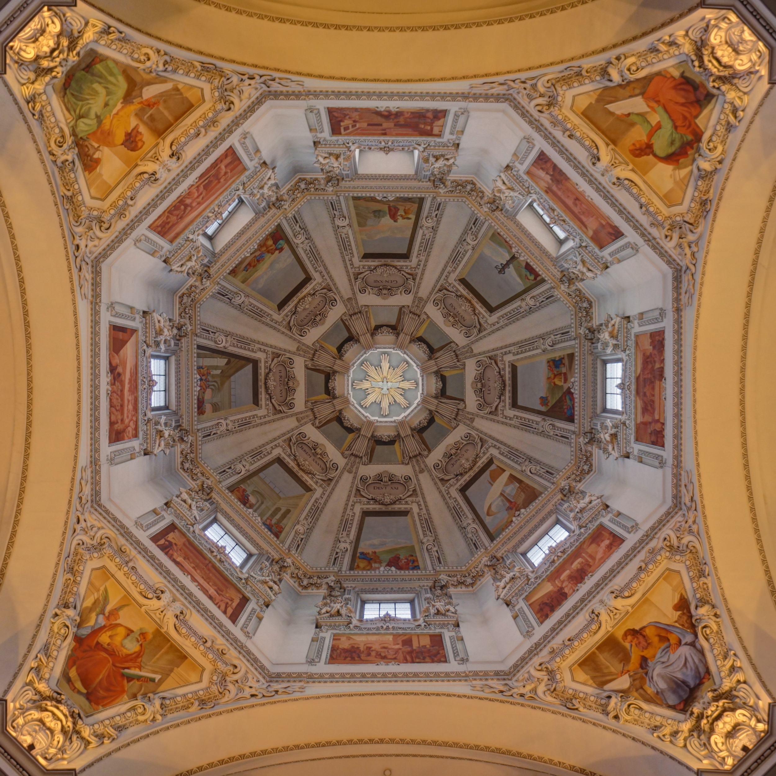 Ceiling fresco of Salzburg Cathedral.